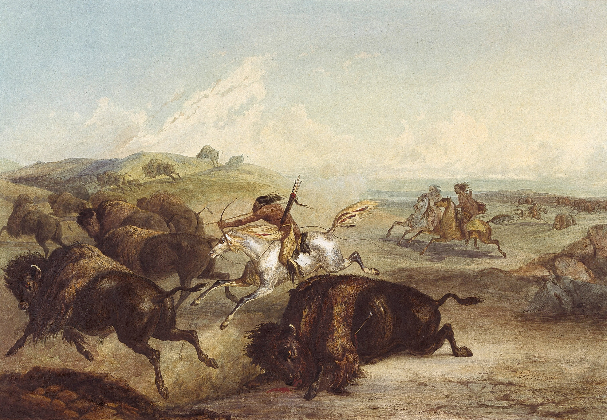 Cropped version of Indians hunting the bison, a print by Charles Vogel after Karl Bodmer